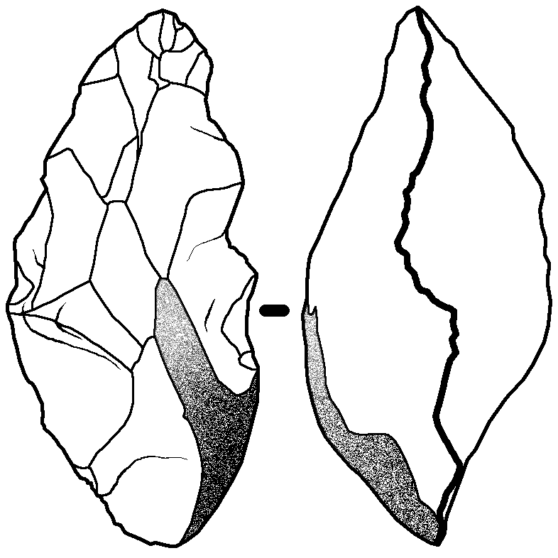 Abbevillian-style hand axe